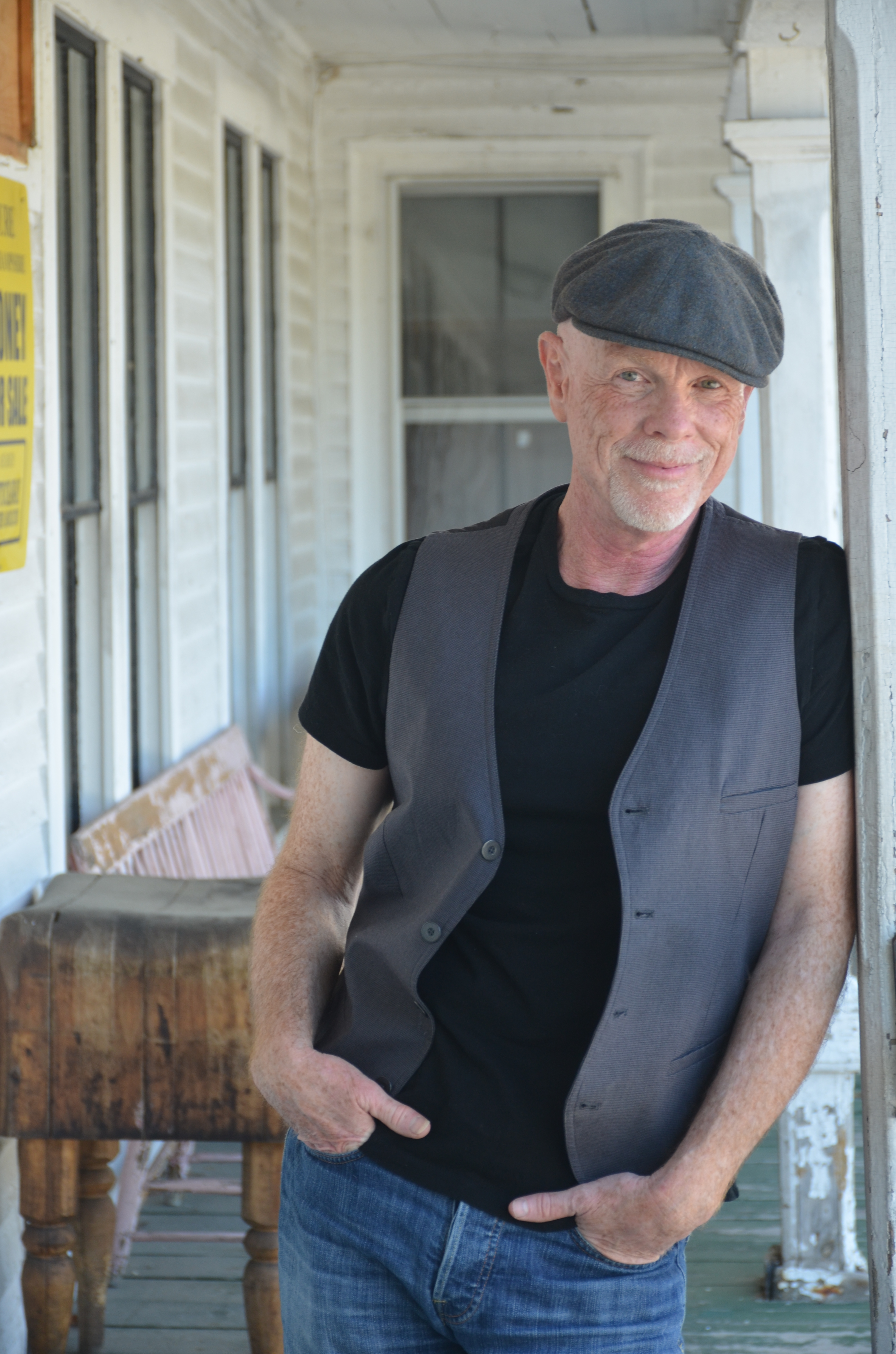 Jon Walmsley